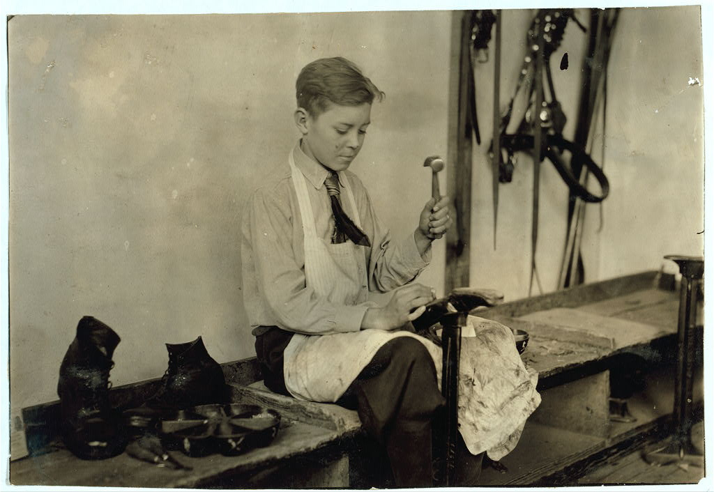 Learning to make shoes. Training School for Deaf Mutes. See 4843-4851. Location: Sulphur, Oklahoma / Lewis W. Hine.